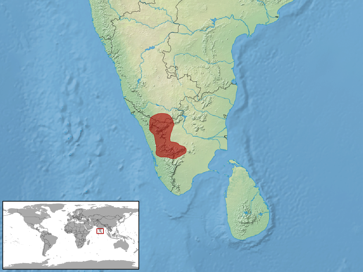 geographic distribution of Salea horsfieldii (Native: India)